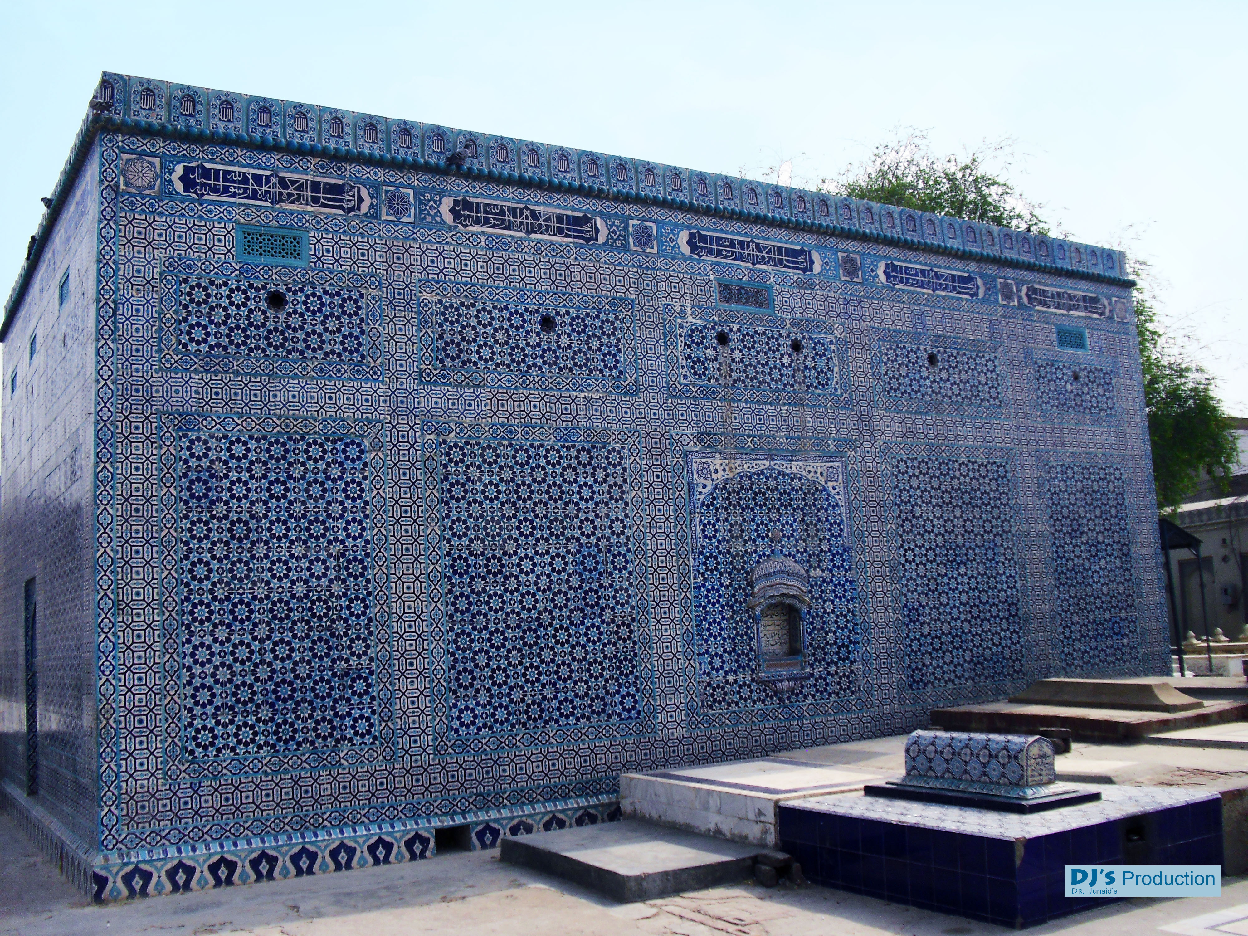 Tomb of Shah Yousuf Gardezi This is a photo of a monument in Pakistan identified as the PB-109